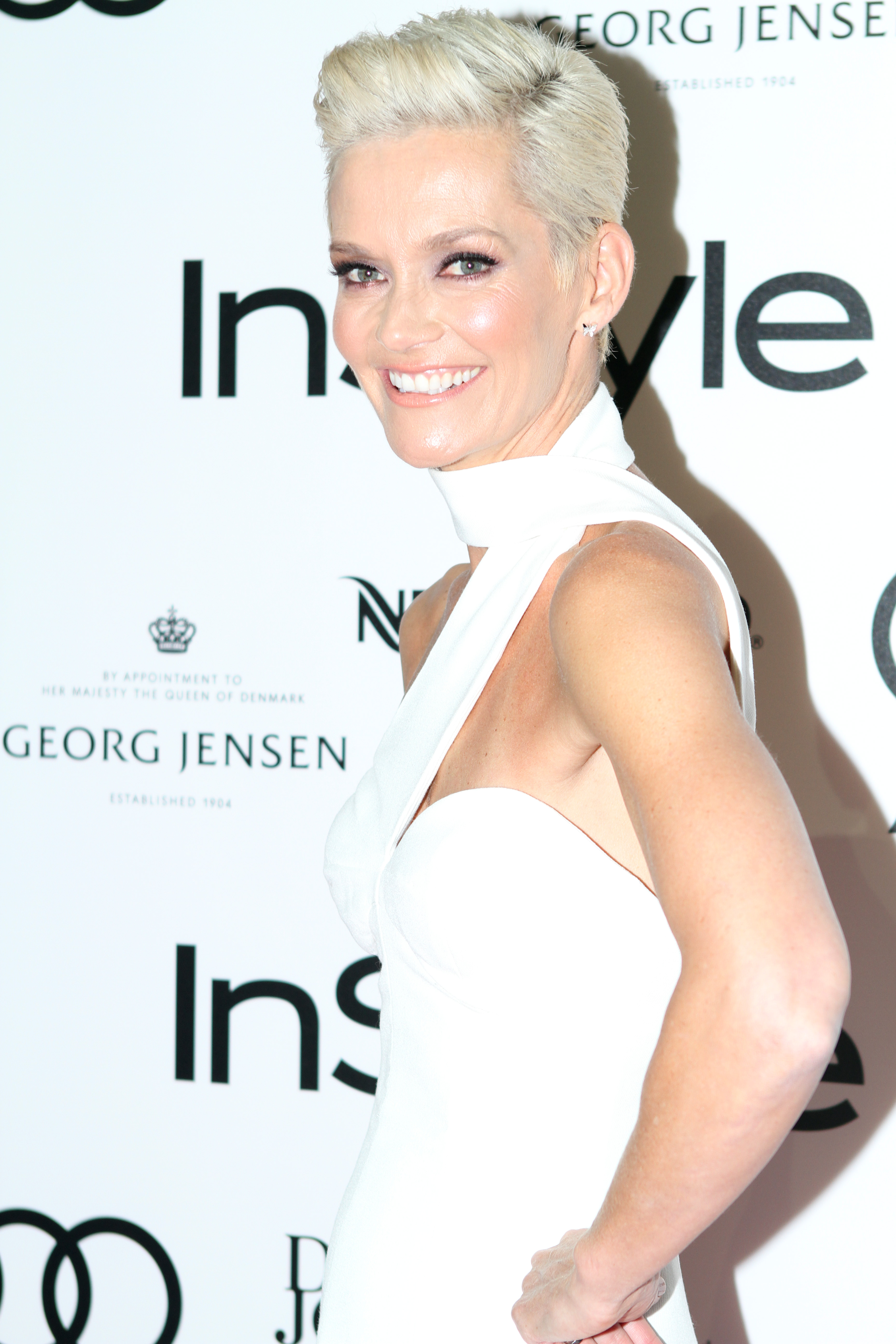 Instyle Awards 2015 InStyle and Audi Host Seventh Annual Woman Of Style Awards Red Carpet Gala Event